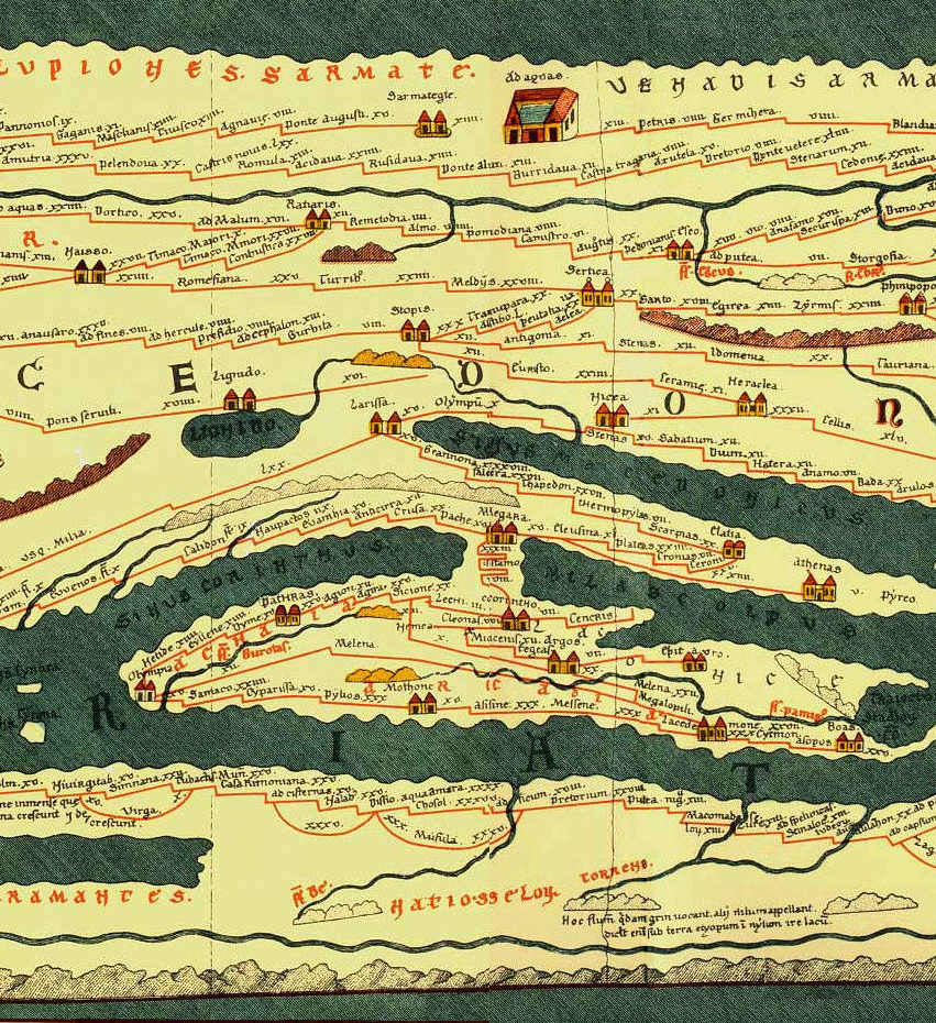 A part of TabulaPeutingeriana, 1-4th century CE. Facsimile edition by Conradi Millieri, 1887/1888